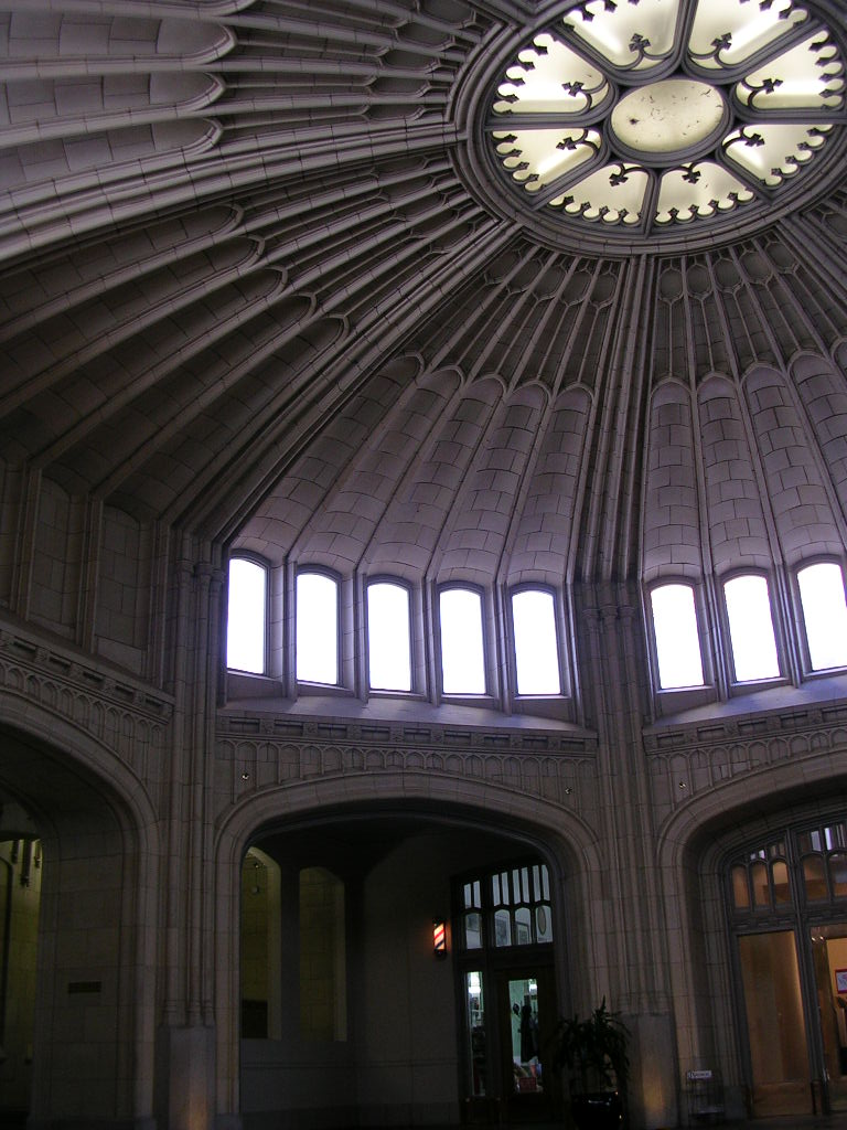 Atrium of the Healey Building at 57 Forsyth Street NW, Atlanta, Georgia, USA. National Register ref #77000429. 33°45′21.5″N 84°23′23.5″W / 33.755972°N 84.389861°W